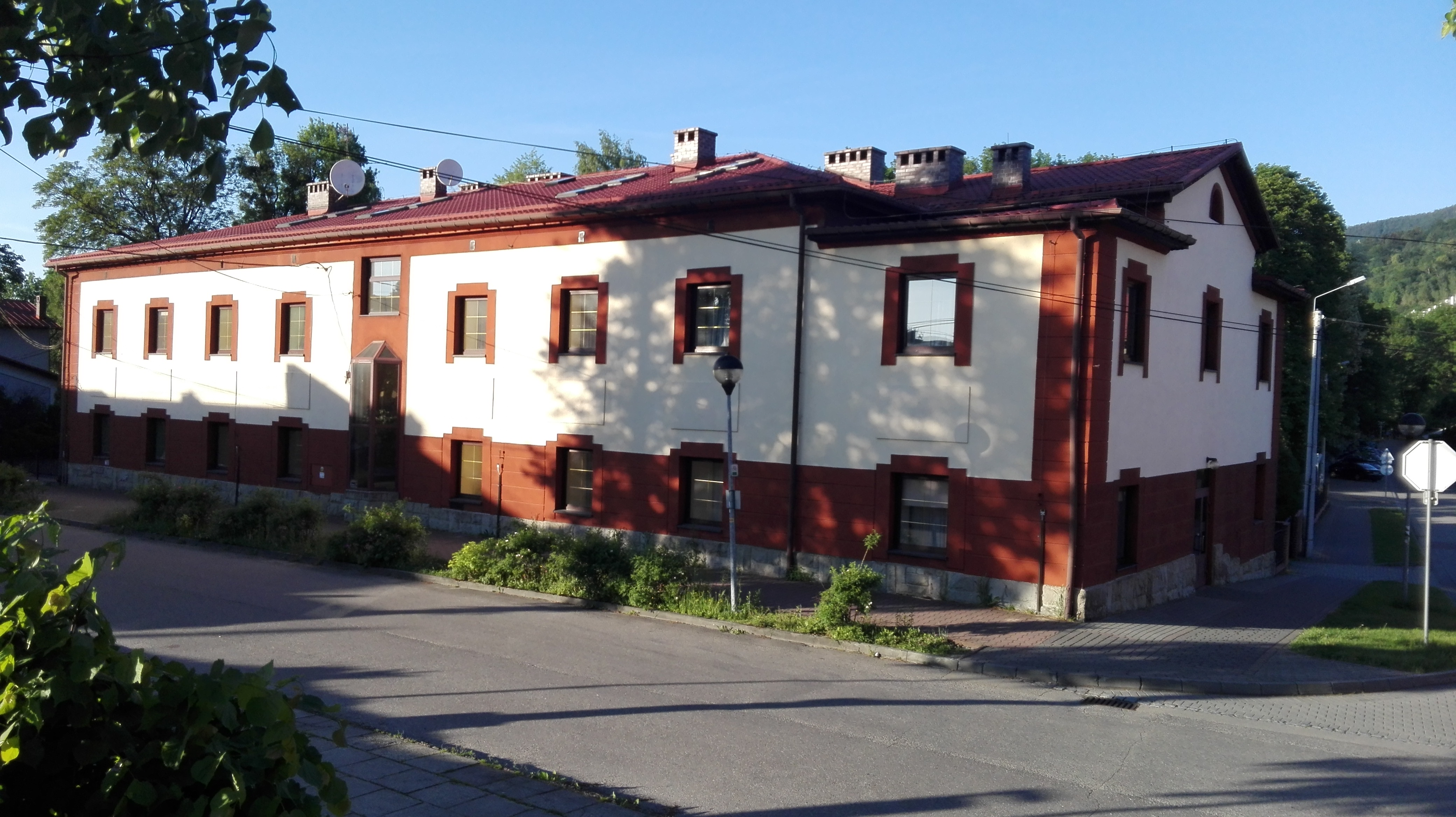 7 Hutnicza Street in Ustroń